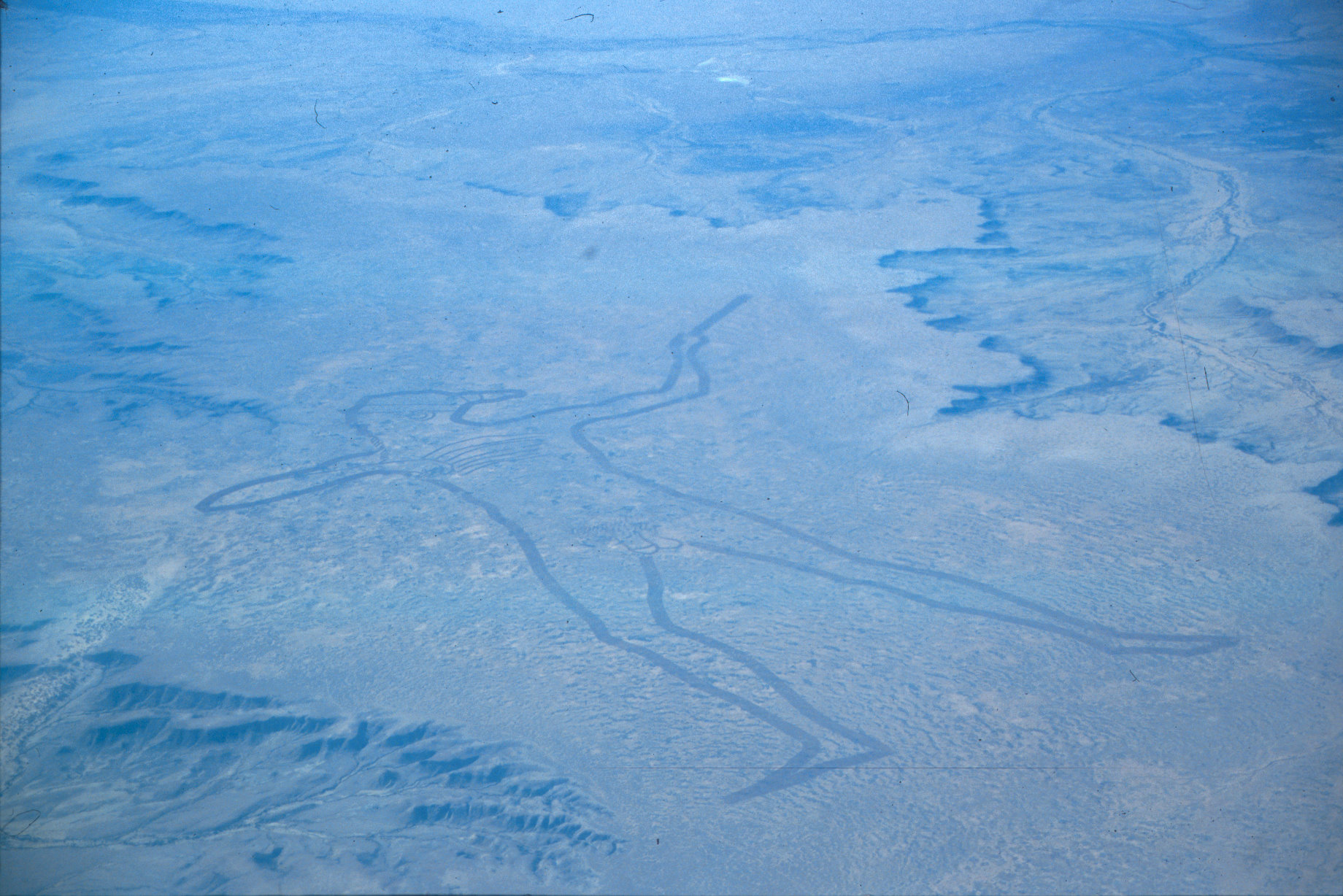 Marree Man from the air, circa 1998